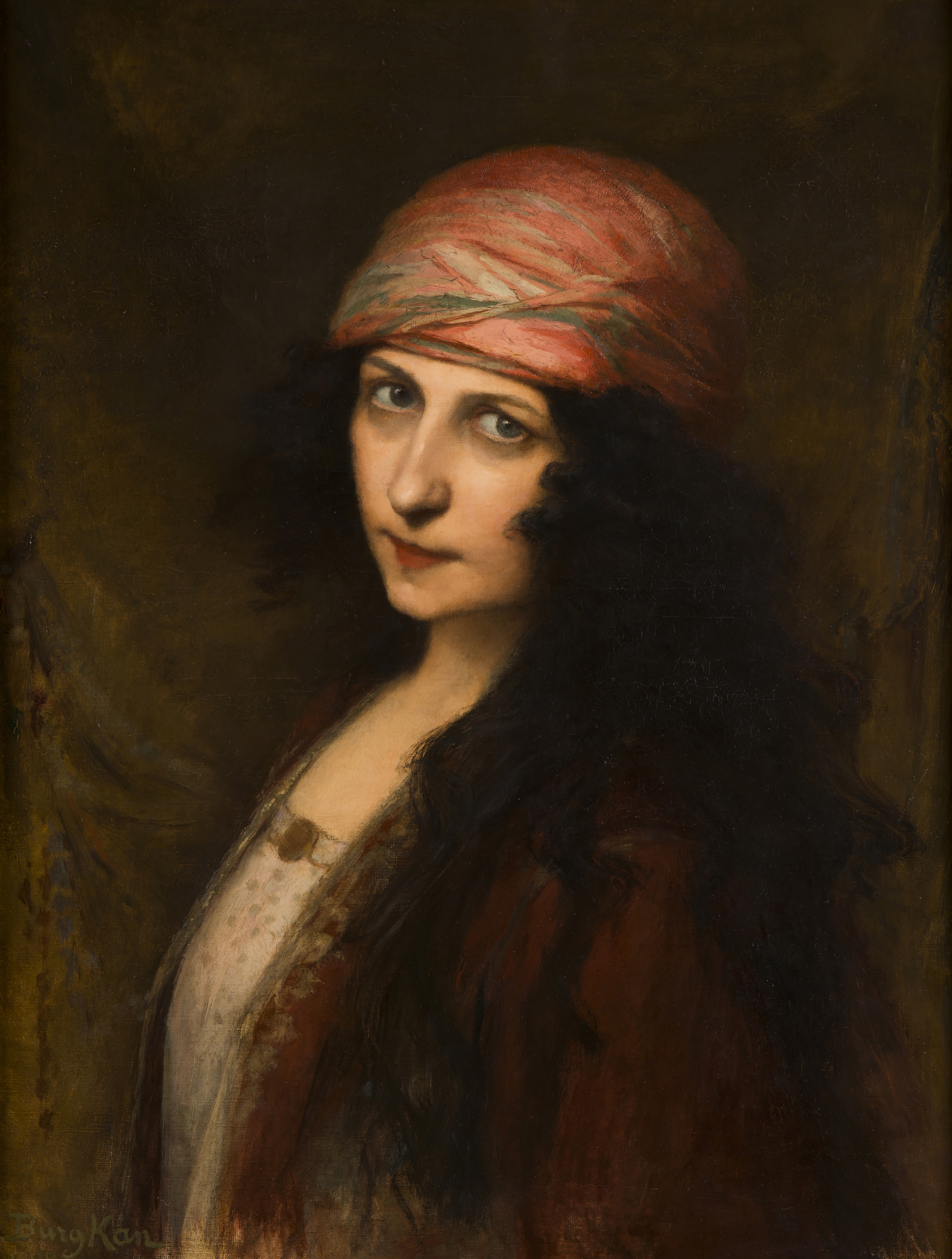 portrait of mythical character Herodiade